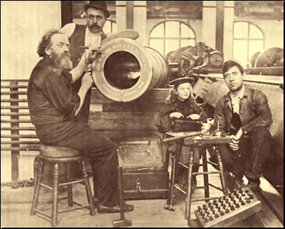 Workers in the Watervliet Arsenal